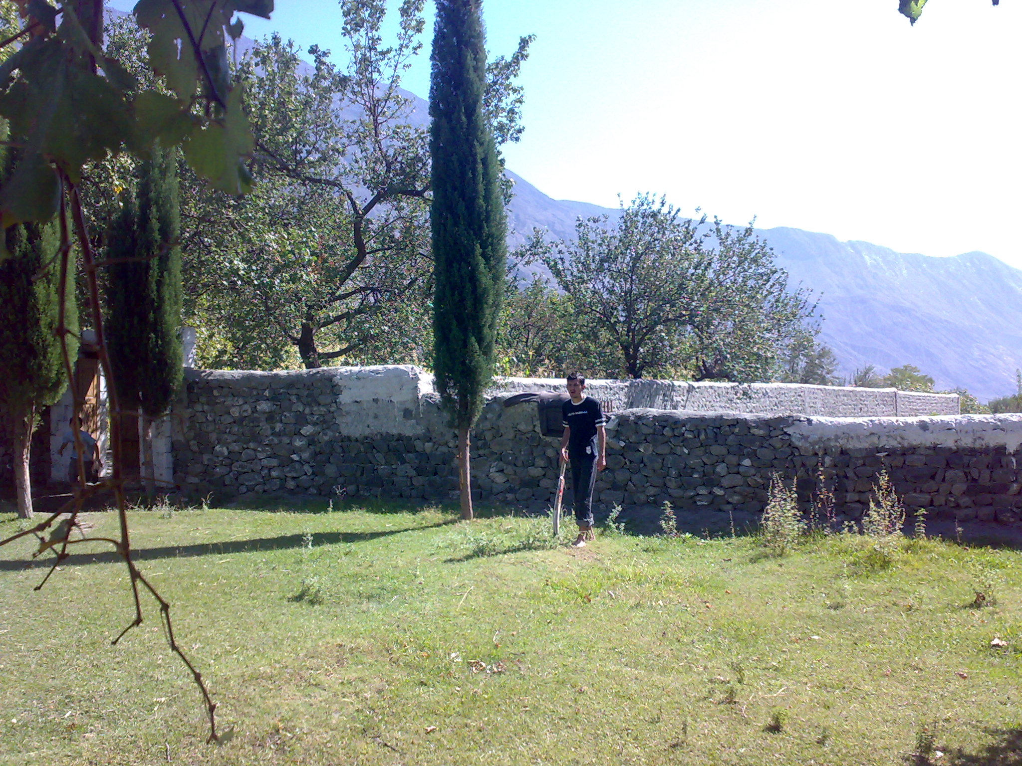 Chamogarh village (chhamugarh), Gilgit-Baltistan, Pakistan